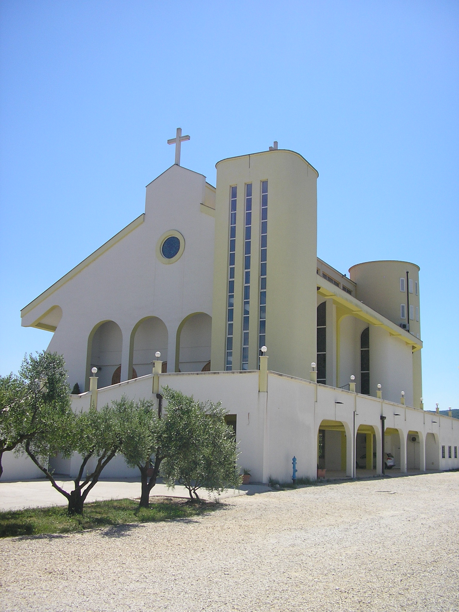 Saint Nicholas church in Metković